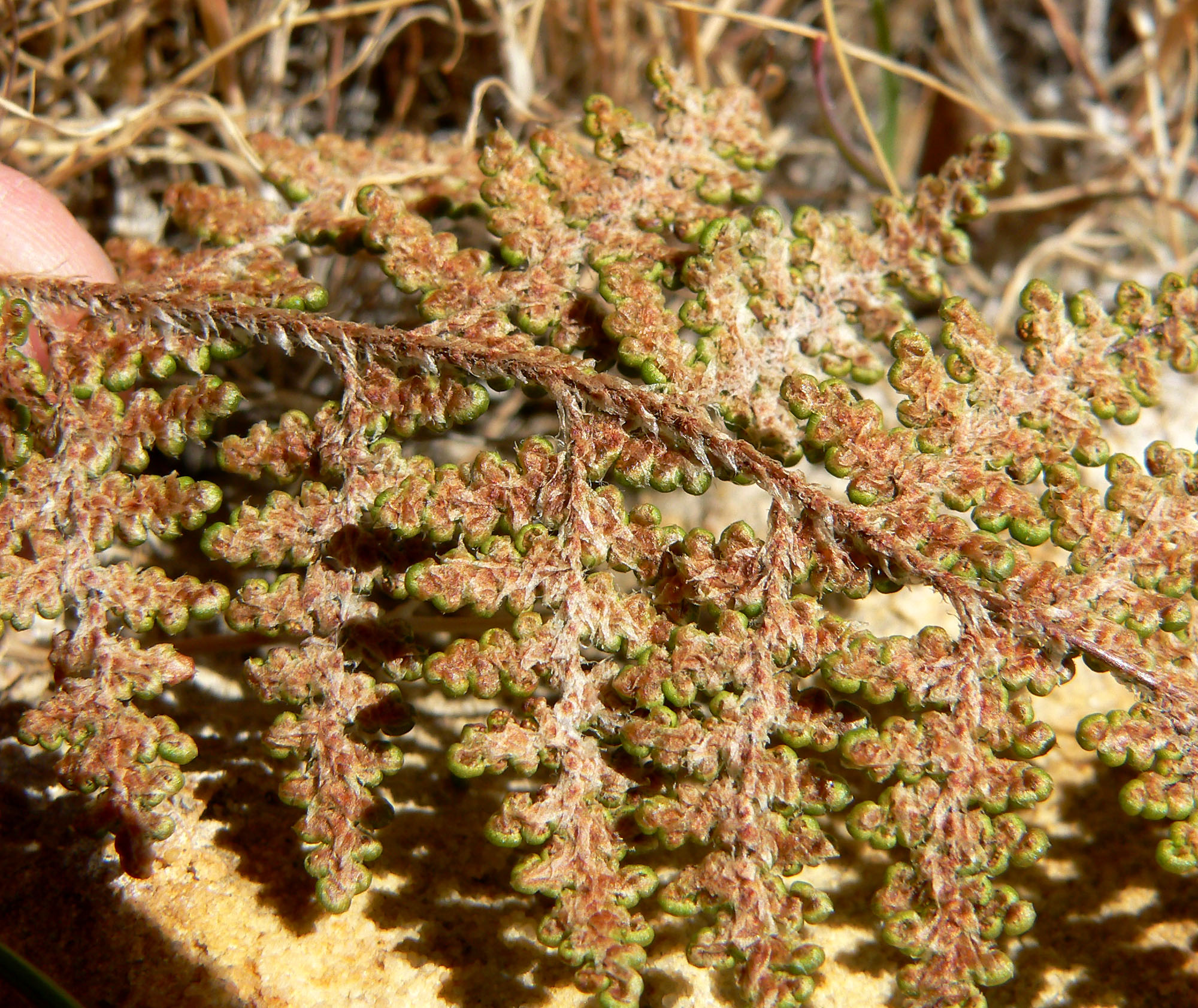 Cheilanthes covillei at White Rock Spring, Red Rock Canyon, southern Nevada